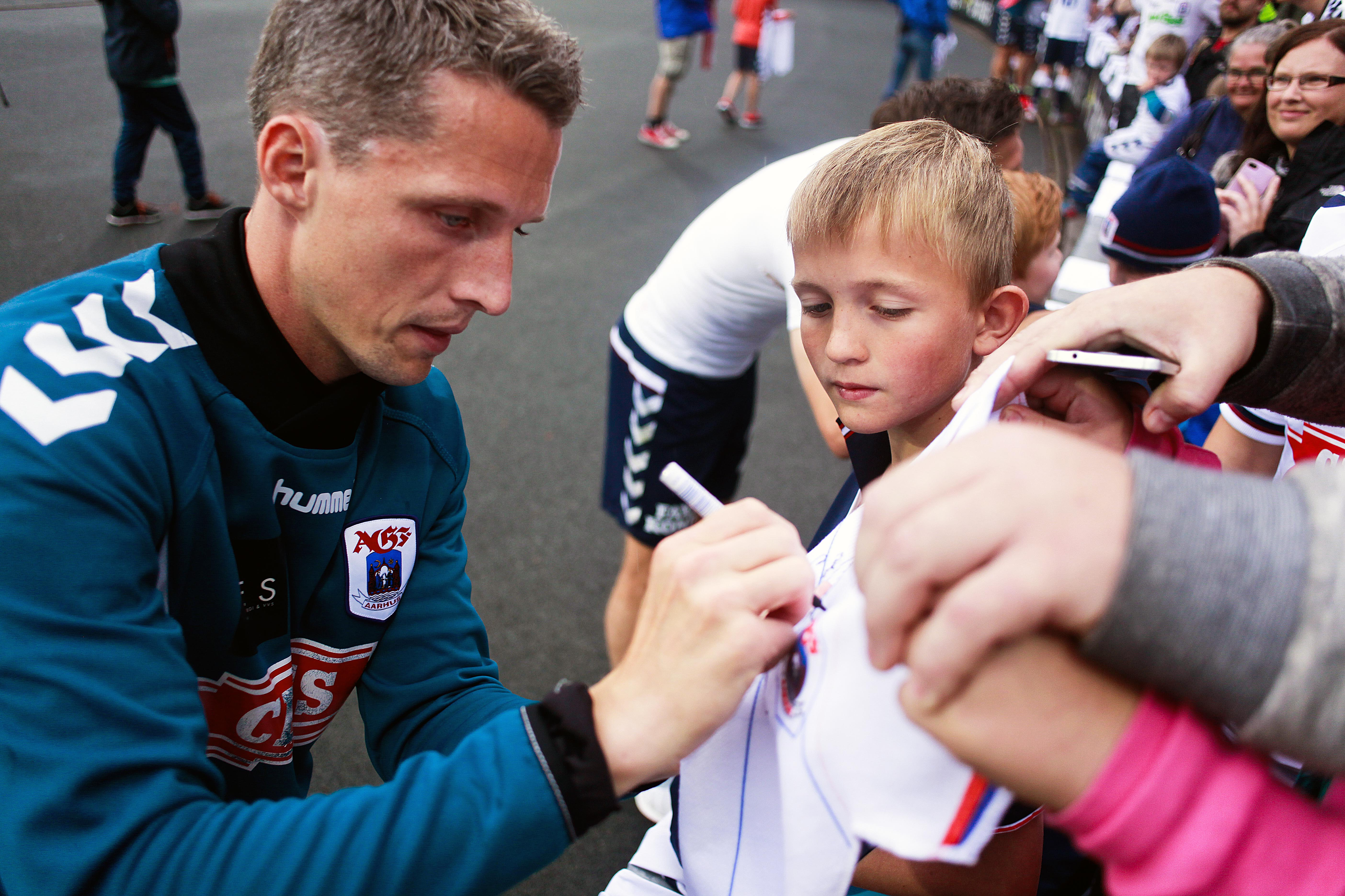 AGF striker Morten Nordstrand signing autographs at Ceres Arena Aarhus